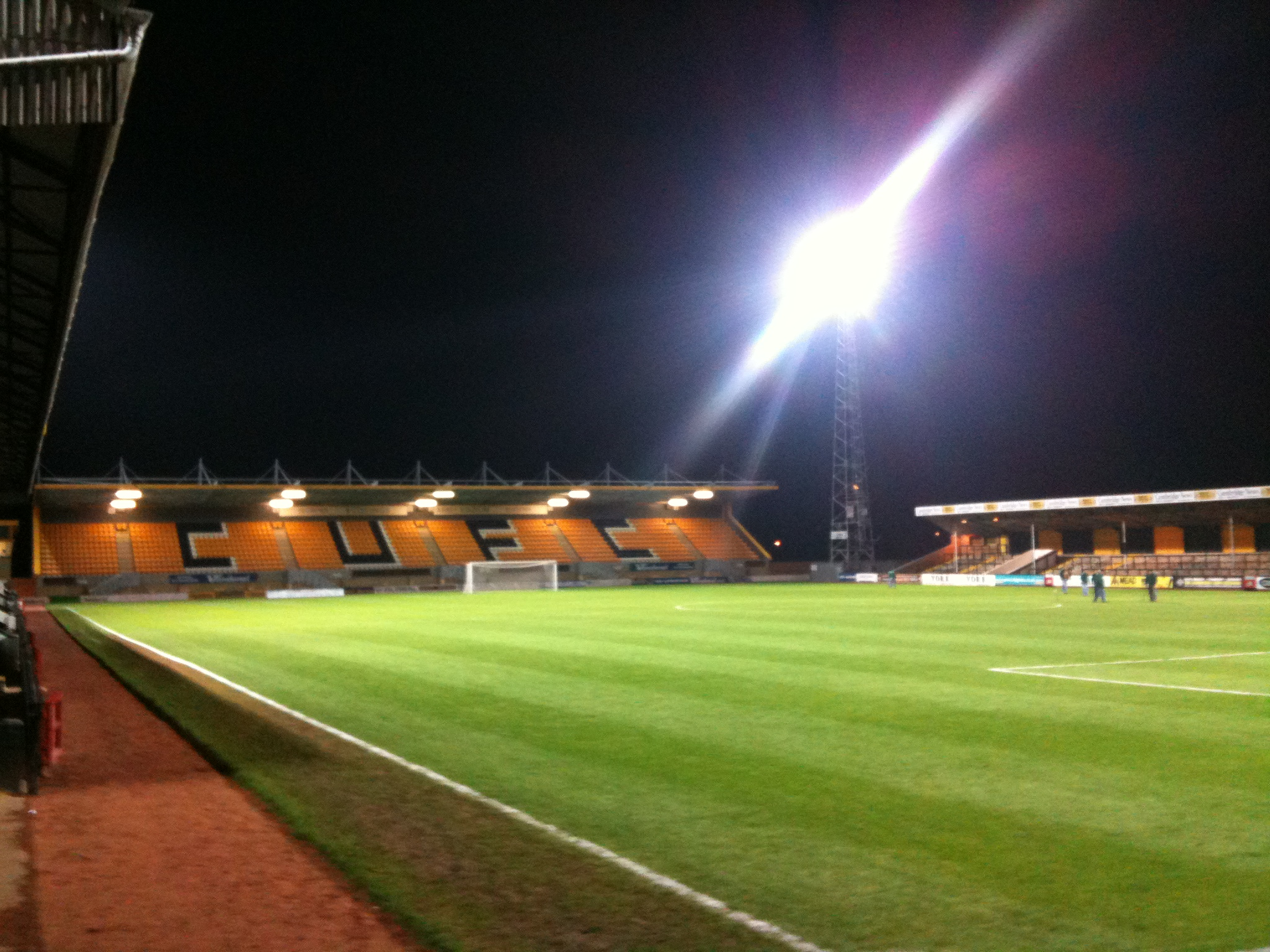 Abbey Stadium South Stand